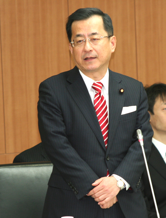 Kiyoshige Maekawa, Senior Vice-Minister of Cabinet Office, attended a conference in Tōkyō Metropolis on December 6, 2012. (For terms of use, see 金融庁ウェブサイト利用ルール： 金融庁.)